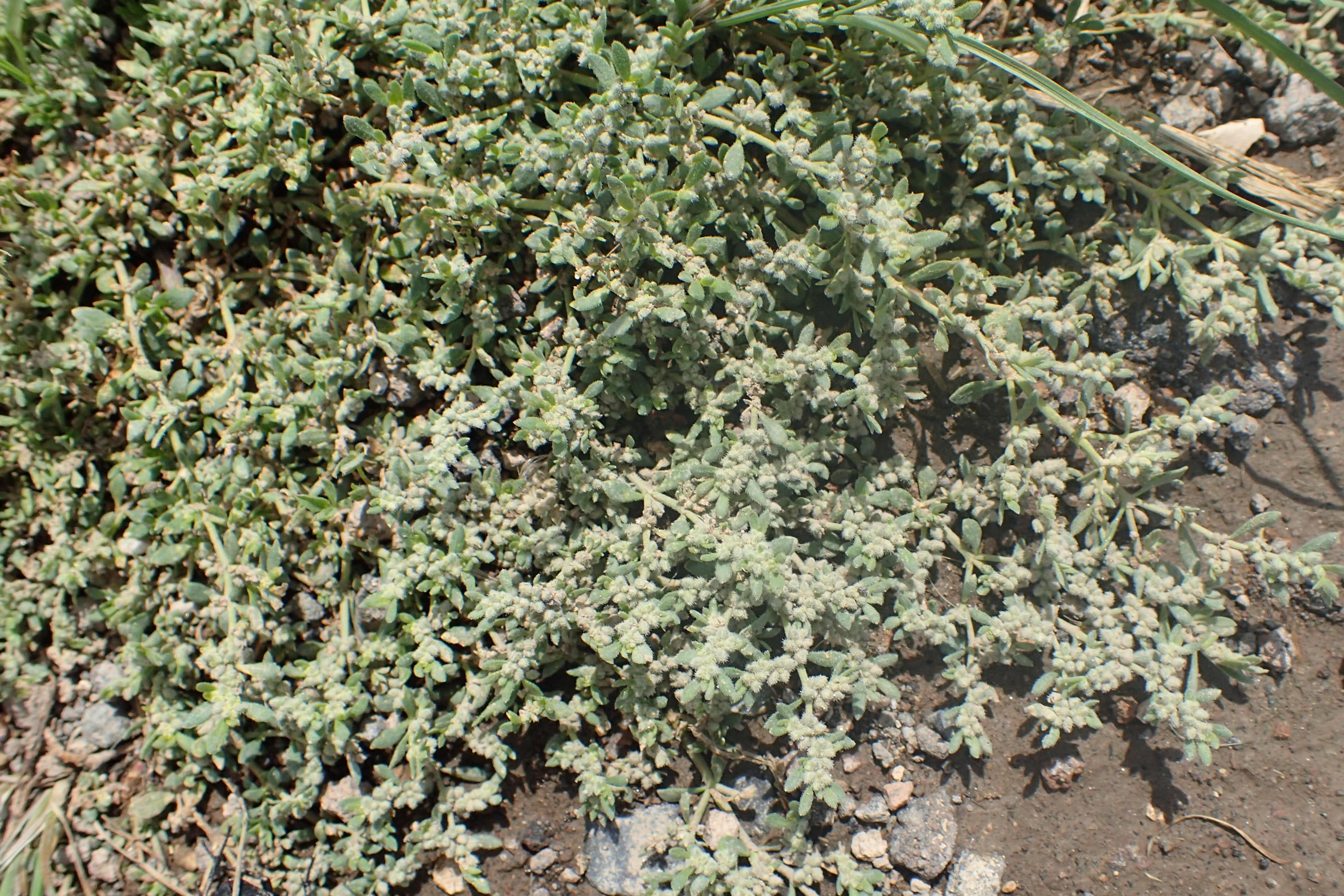 Herniaria incana in Mastara (Armenia)